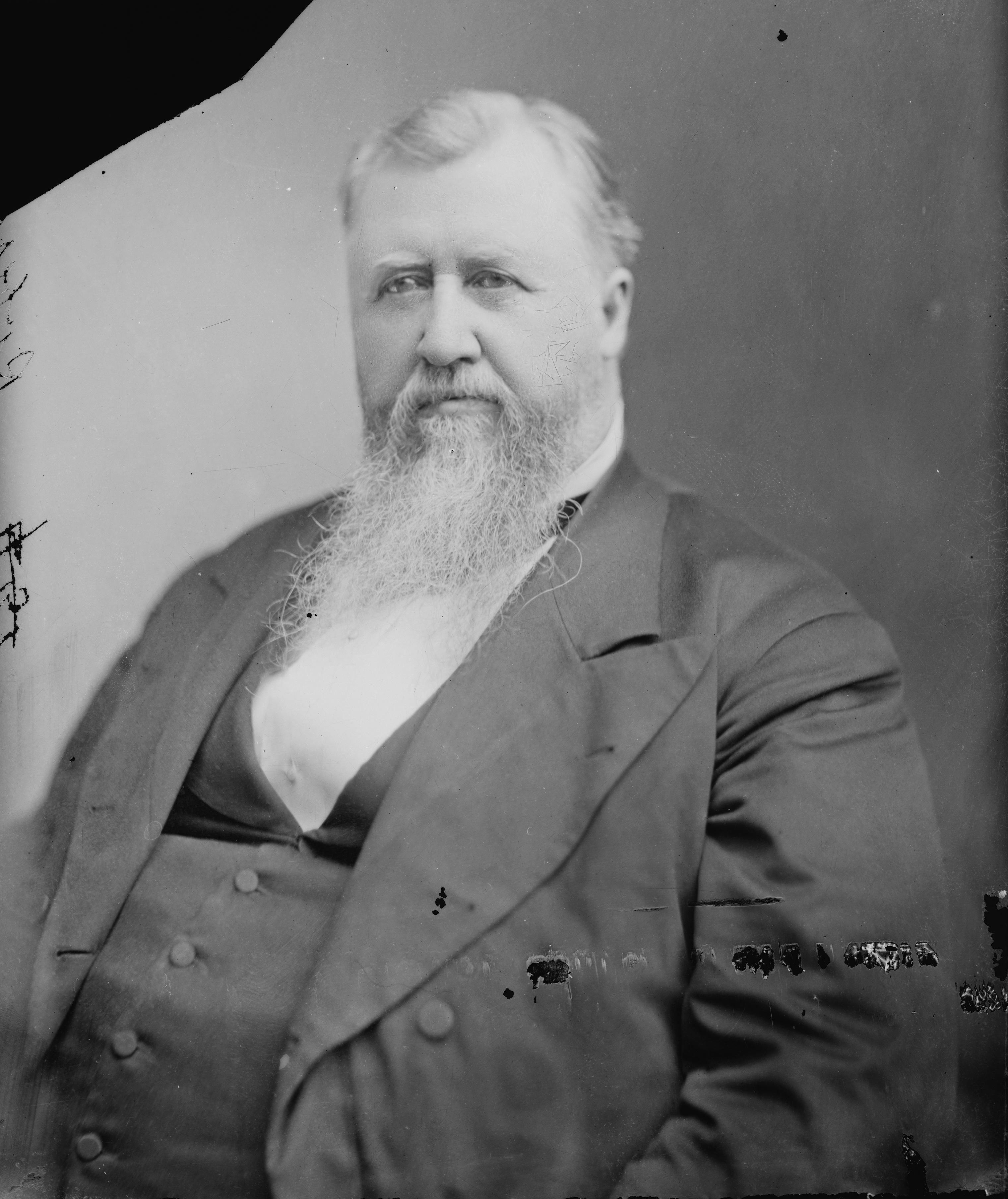 Robert Klotz. Library of Congress description: "Klotz, Hon. Robert of PA".